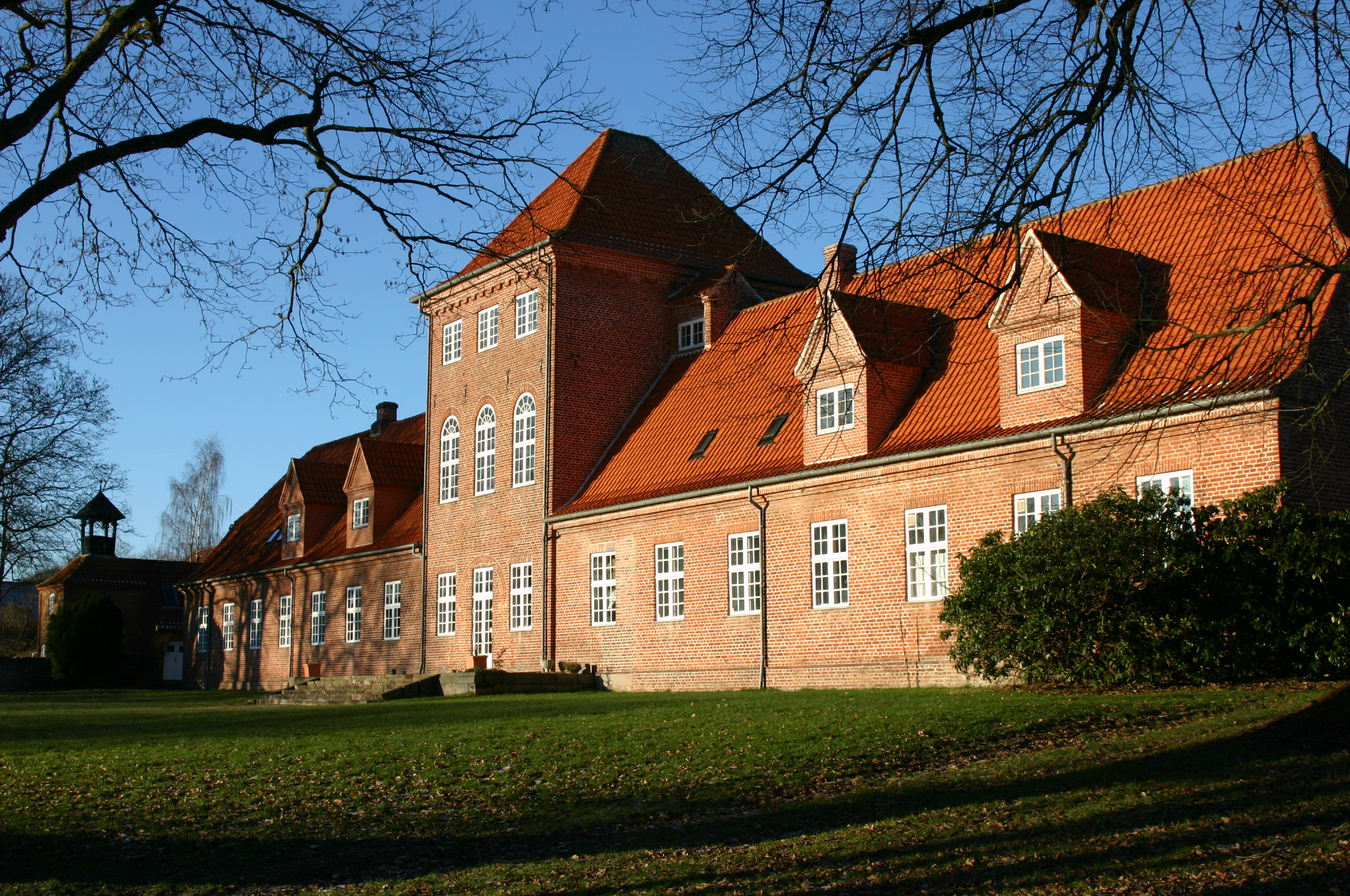 Hald Hovedgård. Manor House SW of Viborg, Denmark. Built 1787. Houses now the Danish Writer- and Translator Center.